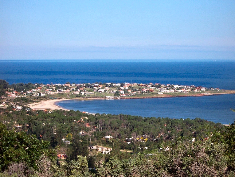 Punta Colorada seen from the southeast slope of the hill San Antonio, of Piriápolis.